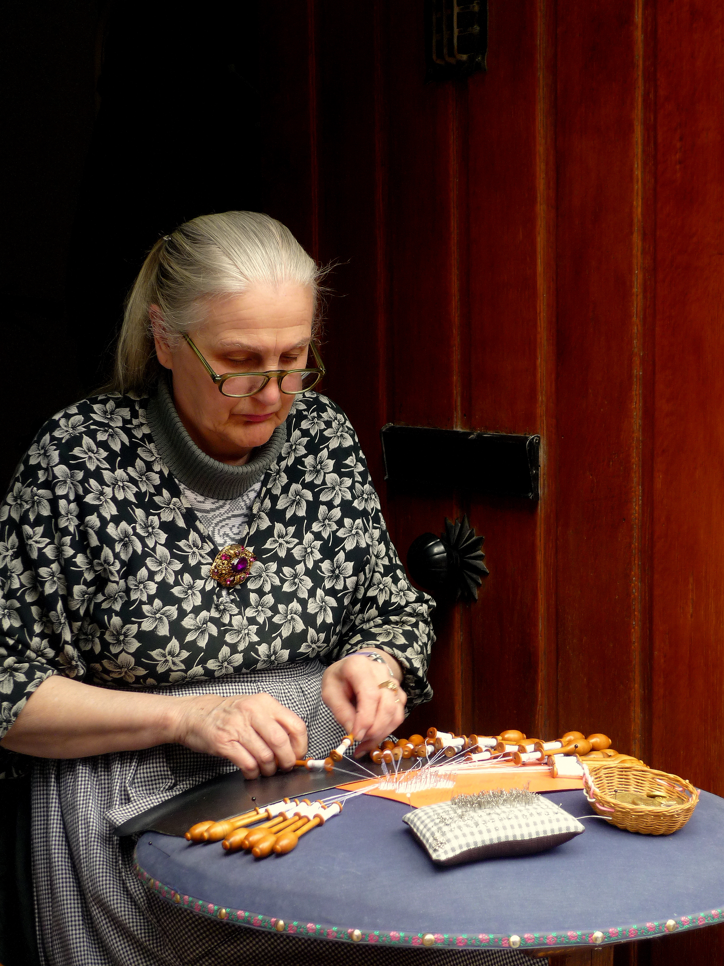 Traditional lace making, Bruges, 2009